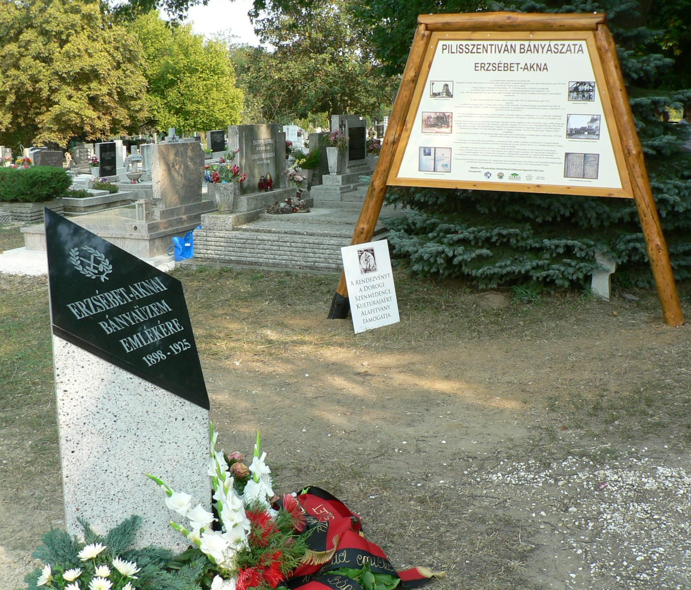 Az Erzsébet-aknai emlékhely az avatása napján (2012. szeptember 2.)